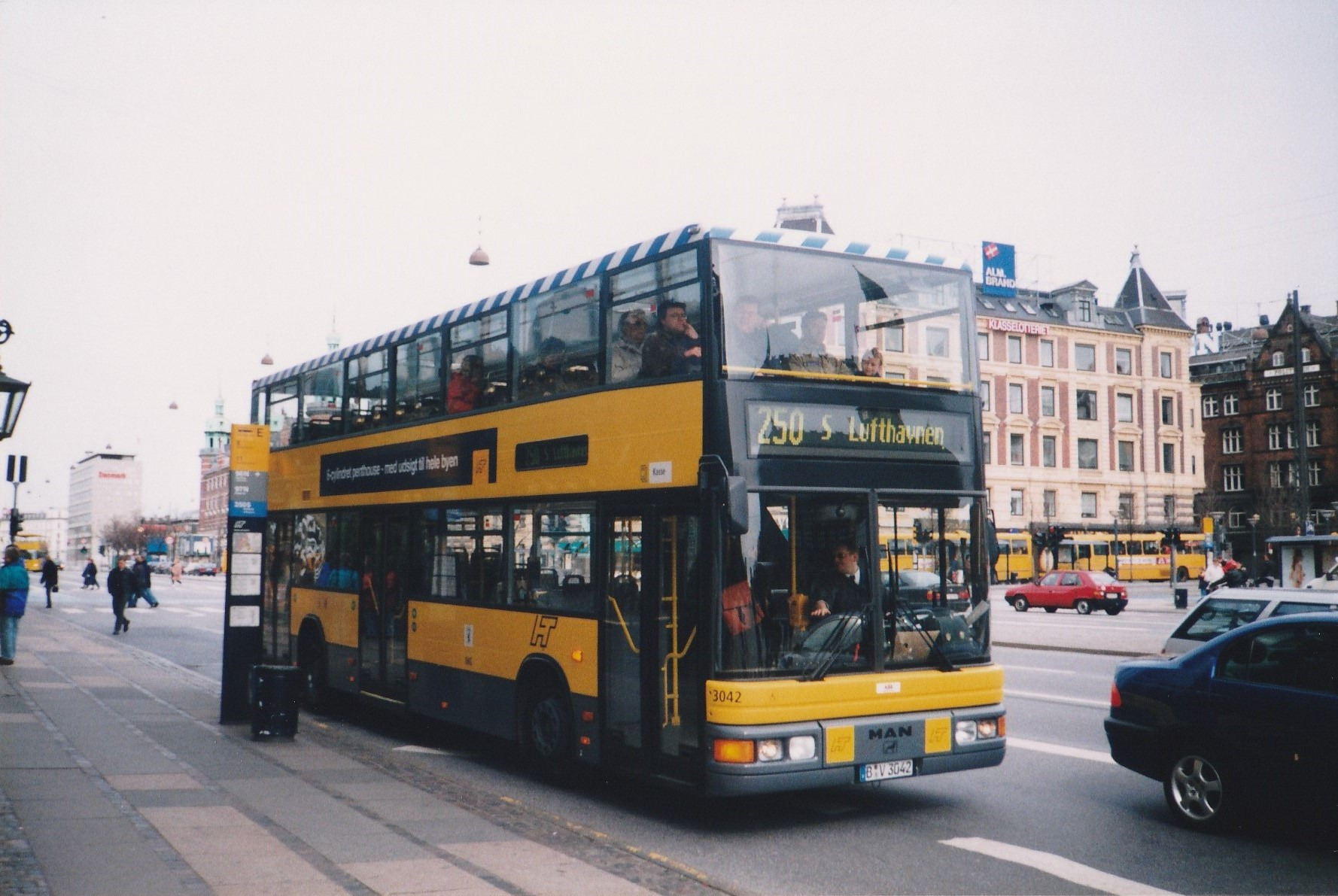 Test with double-decker bus BVG 3042 from Berlin on HT bus line 250S at Rådhuspladsen in Copenhagen.